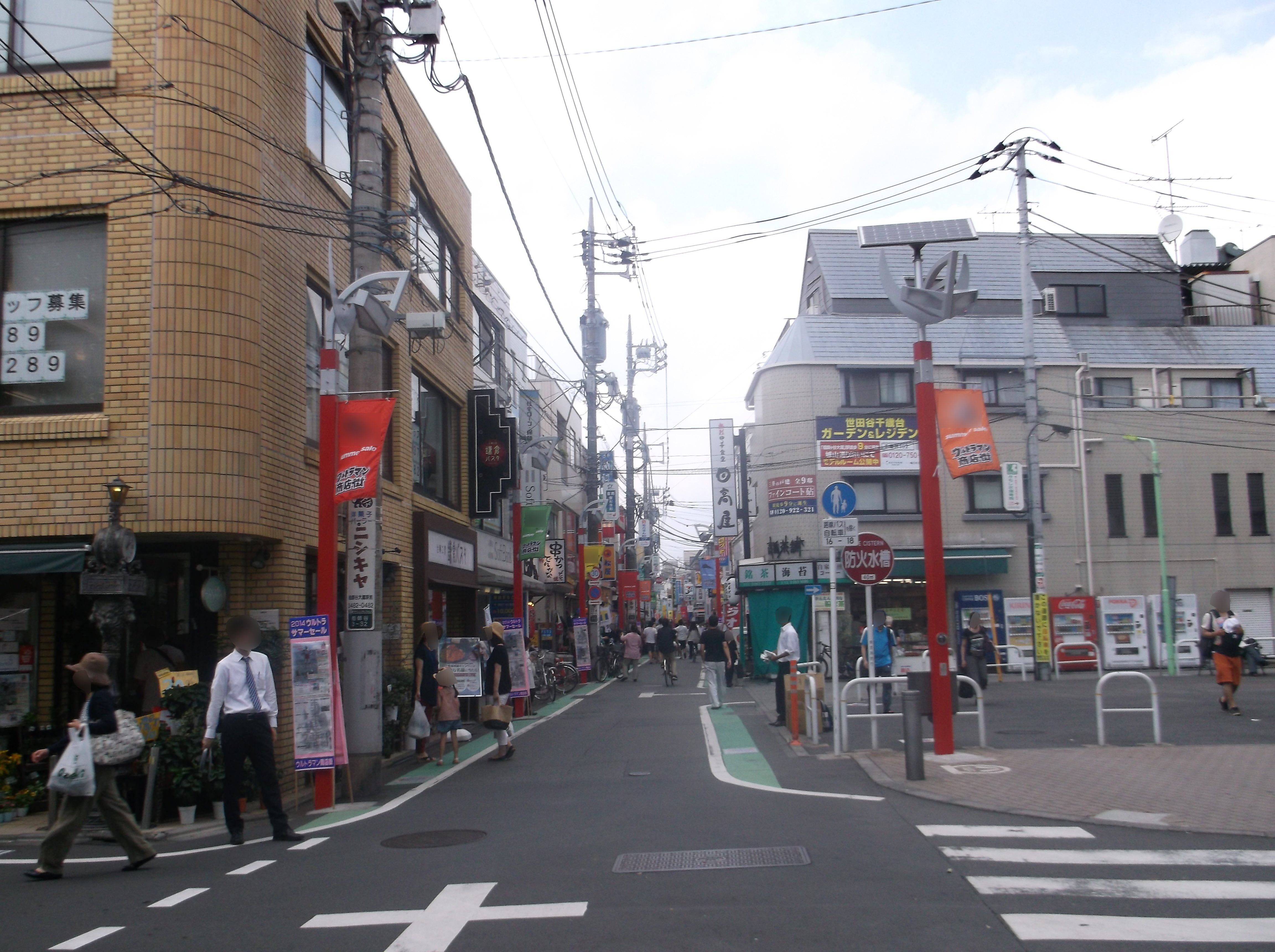 A photo of Ultraman shopping street,Soshigaya,Setagaya-ku,Tokyo,Japan.